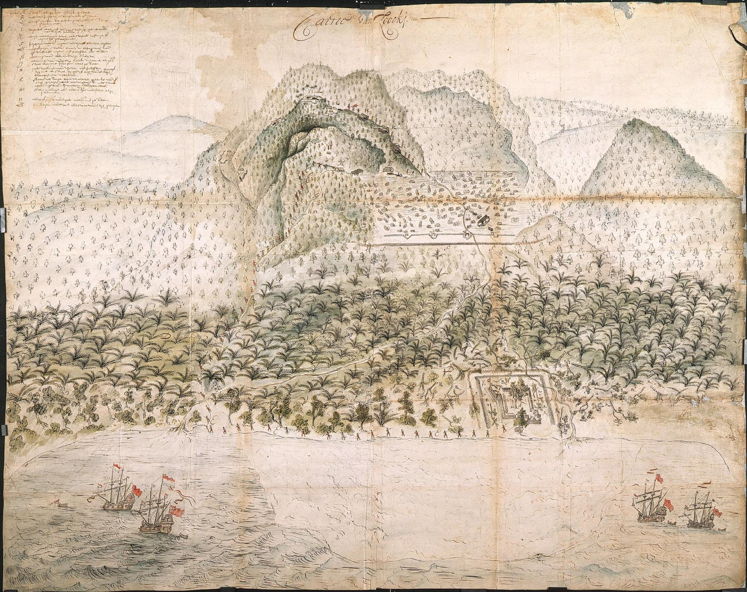 According to the Leupe catalogue (NA), the original title reads: Afbeelding als voren, met de reede waarop de schepen met de bloedvlag in top enz., bedoeld wordt de titel van VEL1152: Afbeelding van de negory Locki, 's Comp:s vastigheid, des vyands weren en optogt onzer troepen enz.. Belongs with the report by Arnold de Vlamingh van Outshoorn. The back has been restored with rice paper, as a result of which the notes on the reverse are difficult to read. Cf. Österreichisches Nationalbibliothek, inv.nr. Van der Hem 40:15. Notes on reverse: Caerte van Loocki / No. 11 [must refer to the folio number in the OBP volume] / behoort in PPP2 [in pencil, this number has since become VOC 1193].